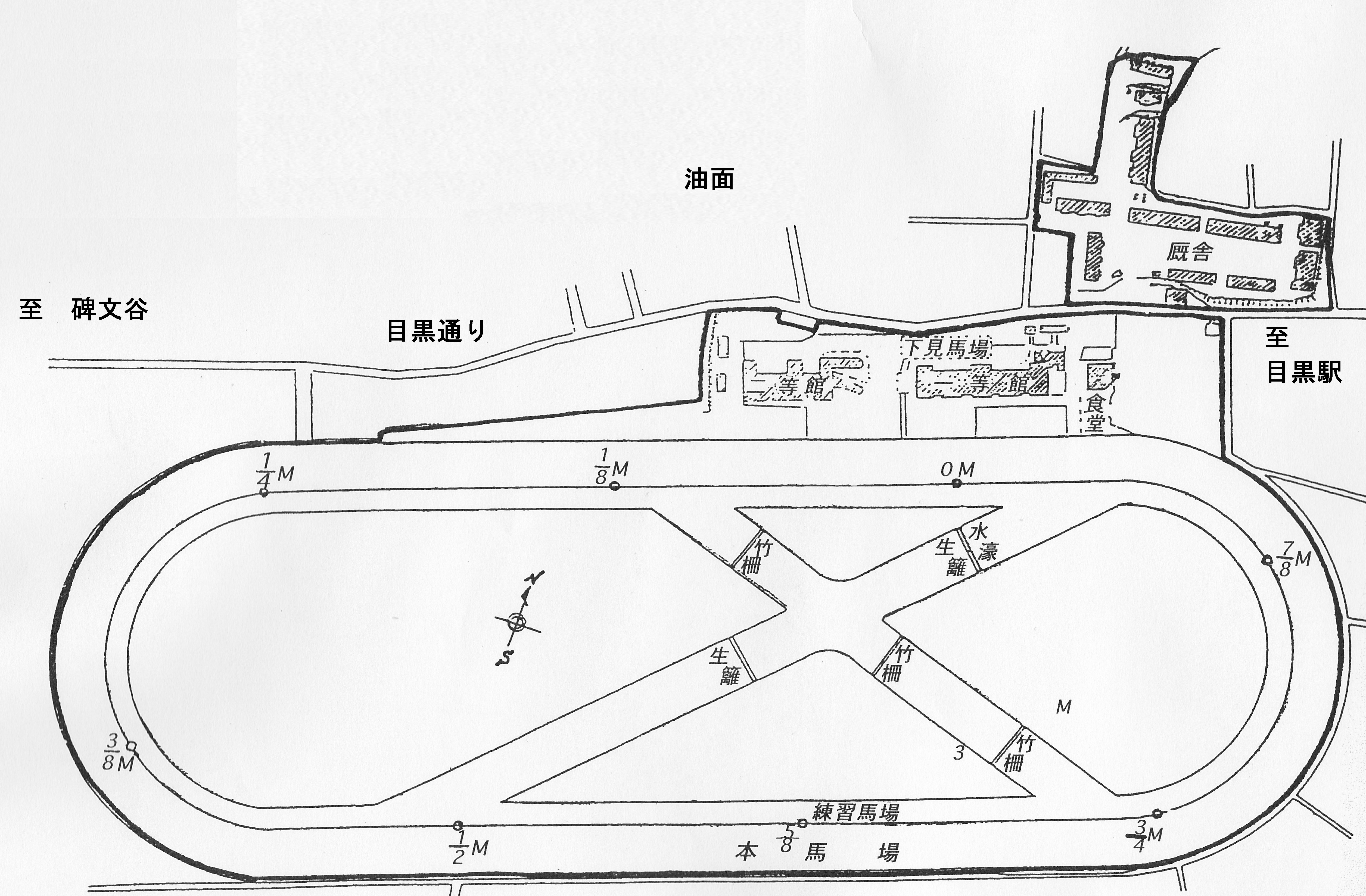 Meguro Racecourse in 1941